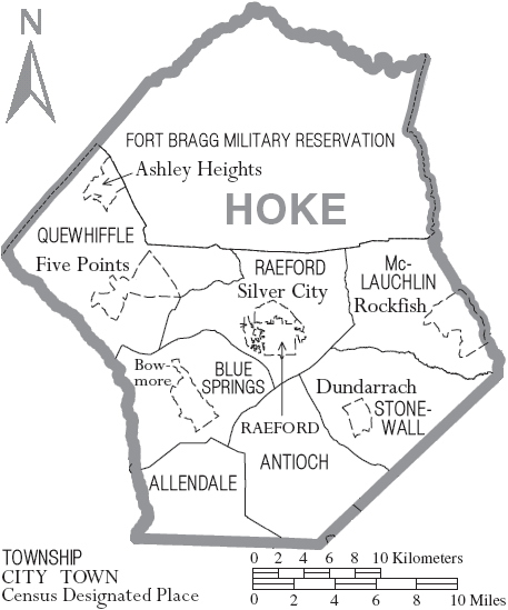 Map of Hoke County, North Carolina, United States with township and municipal boundaries